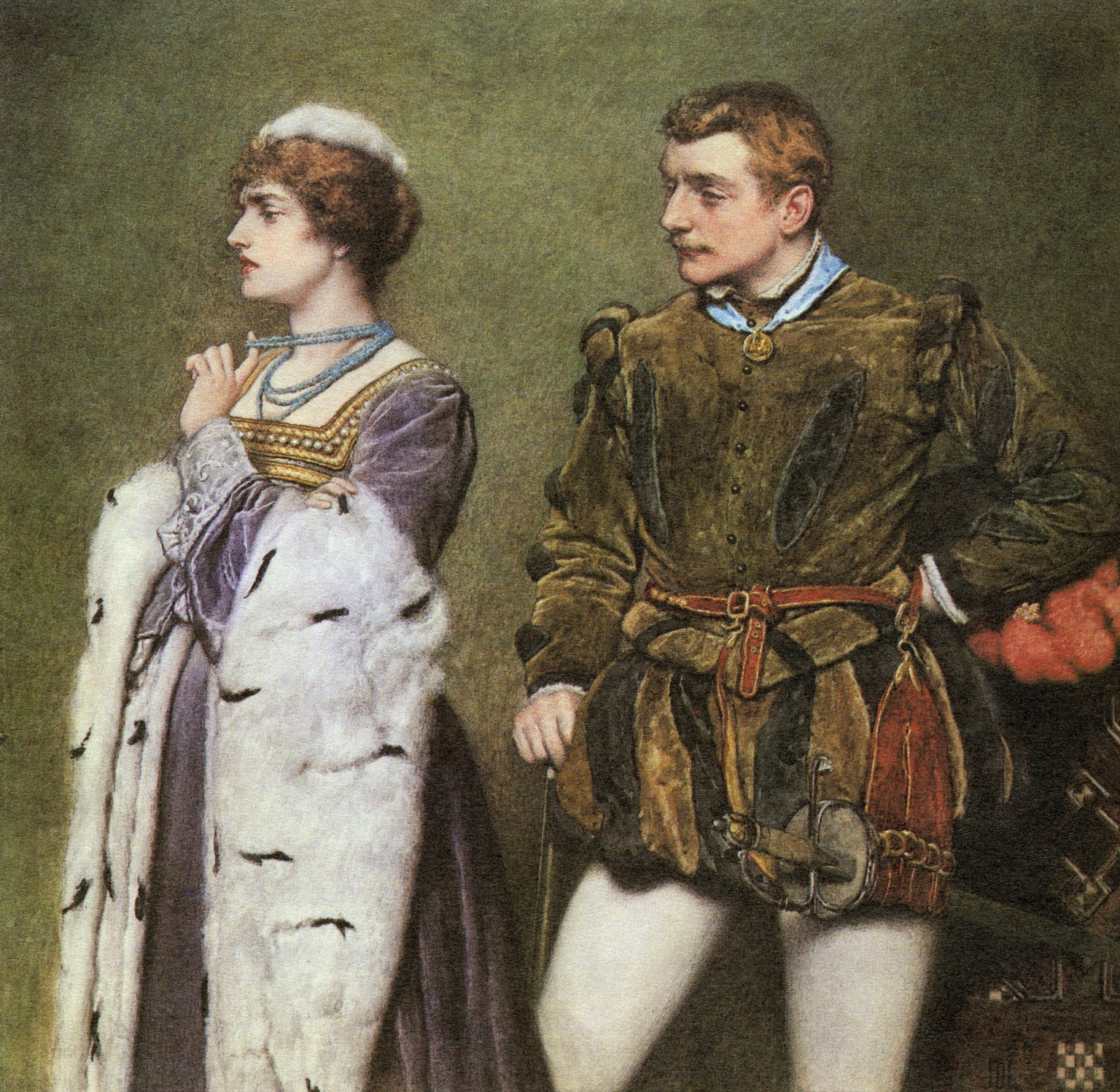 A mid-19th century watercolor of Katherine and Petruchio